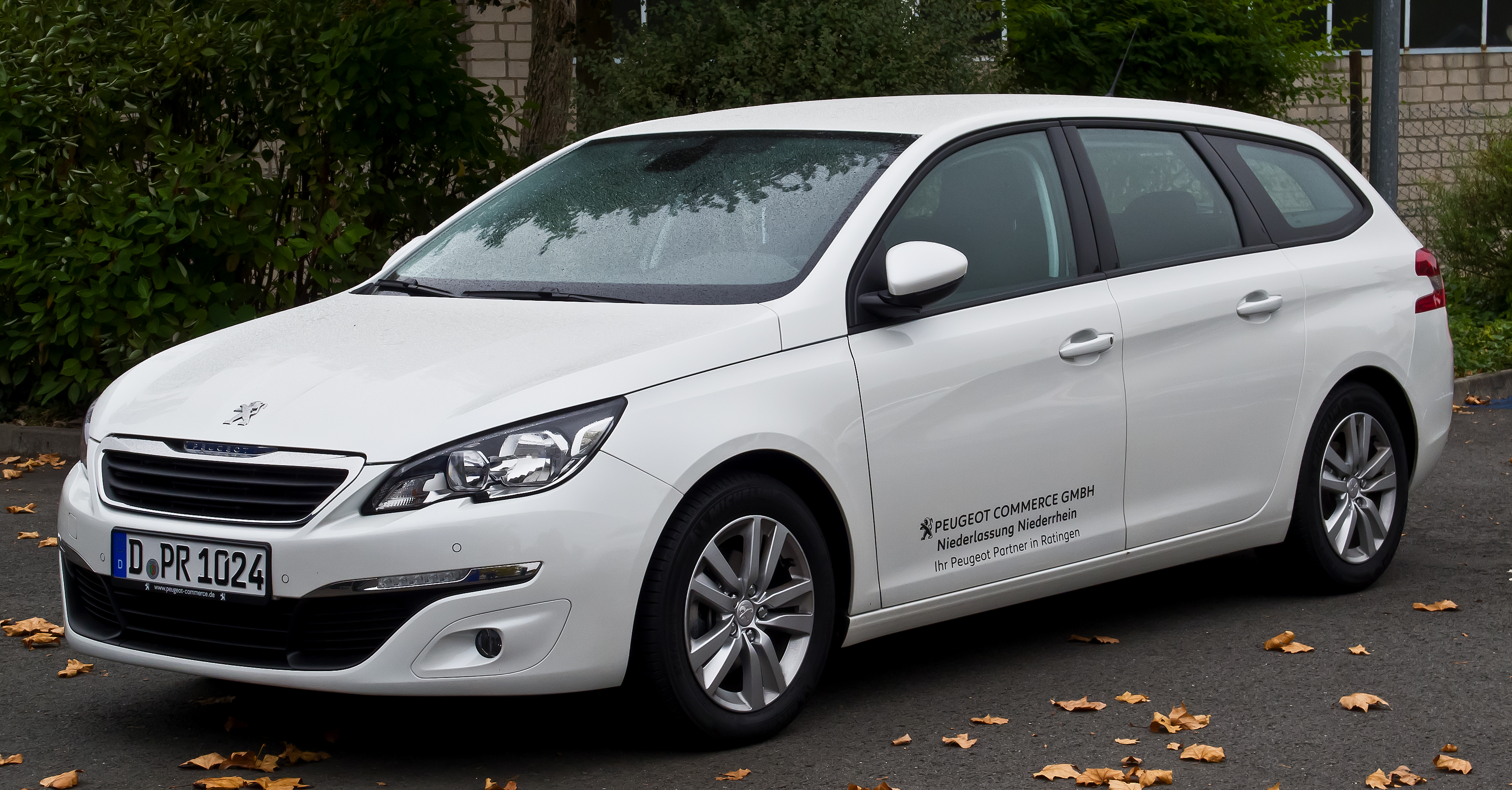 Peugeot 308 SW 130 e-THP 130 Active (II)